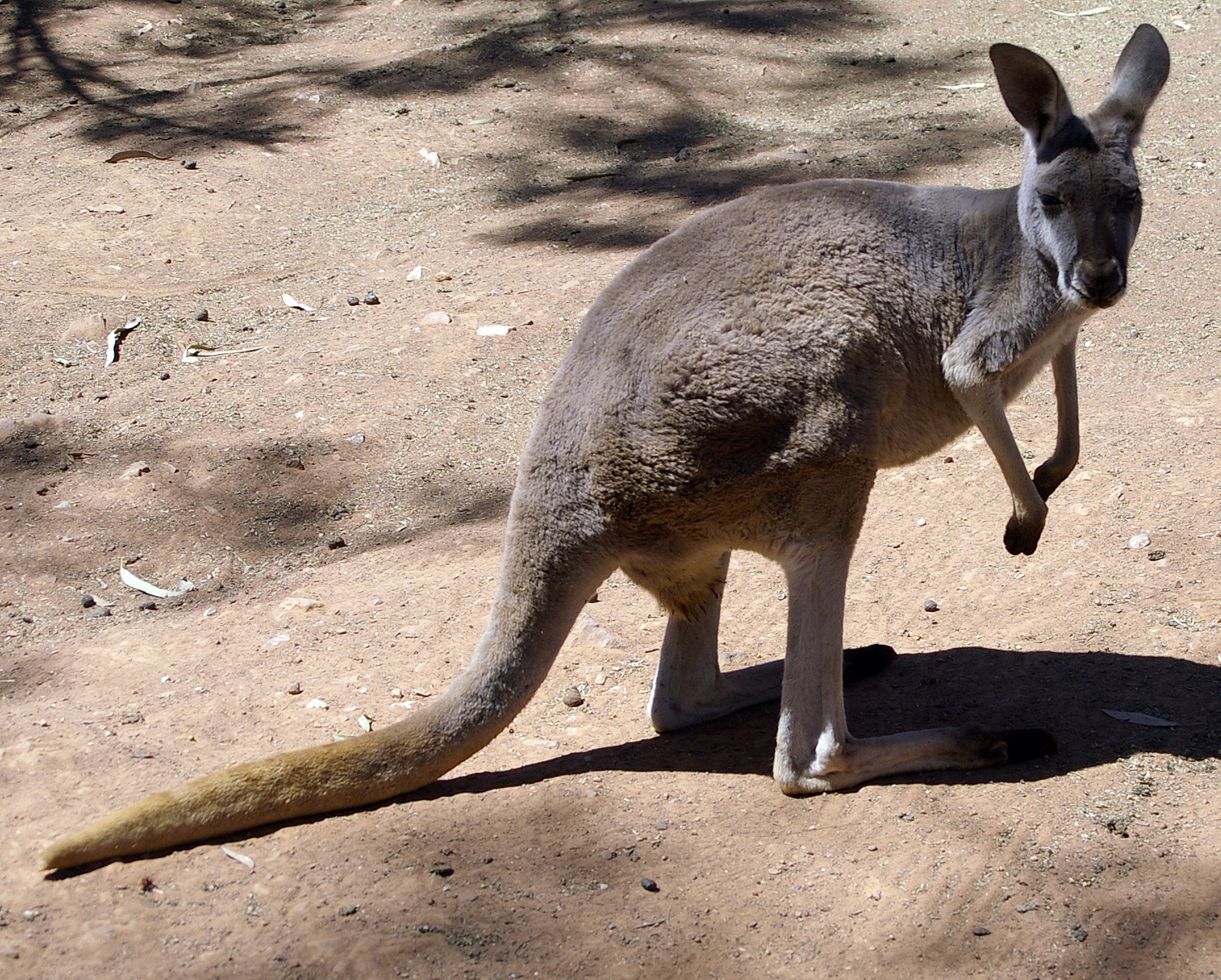 Female Red Kangaroo (Macropus rufus) in the Botanic Garden Zoo (Also called Wagga Zoo) at the Wagga Wagga Botanic Gardens.